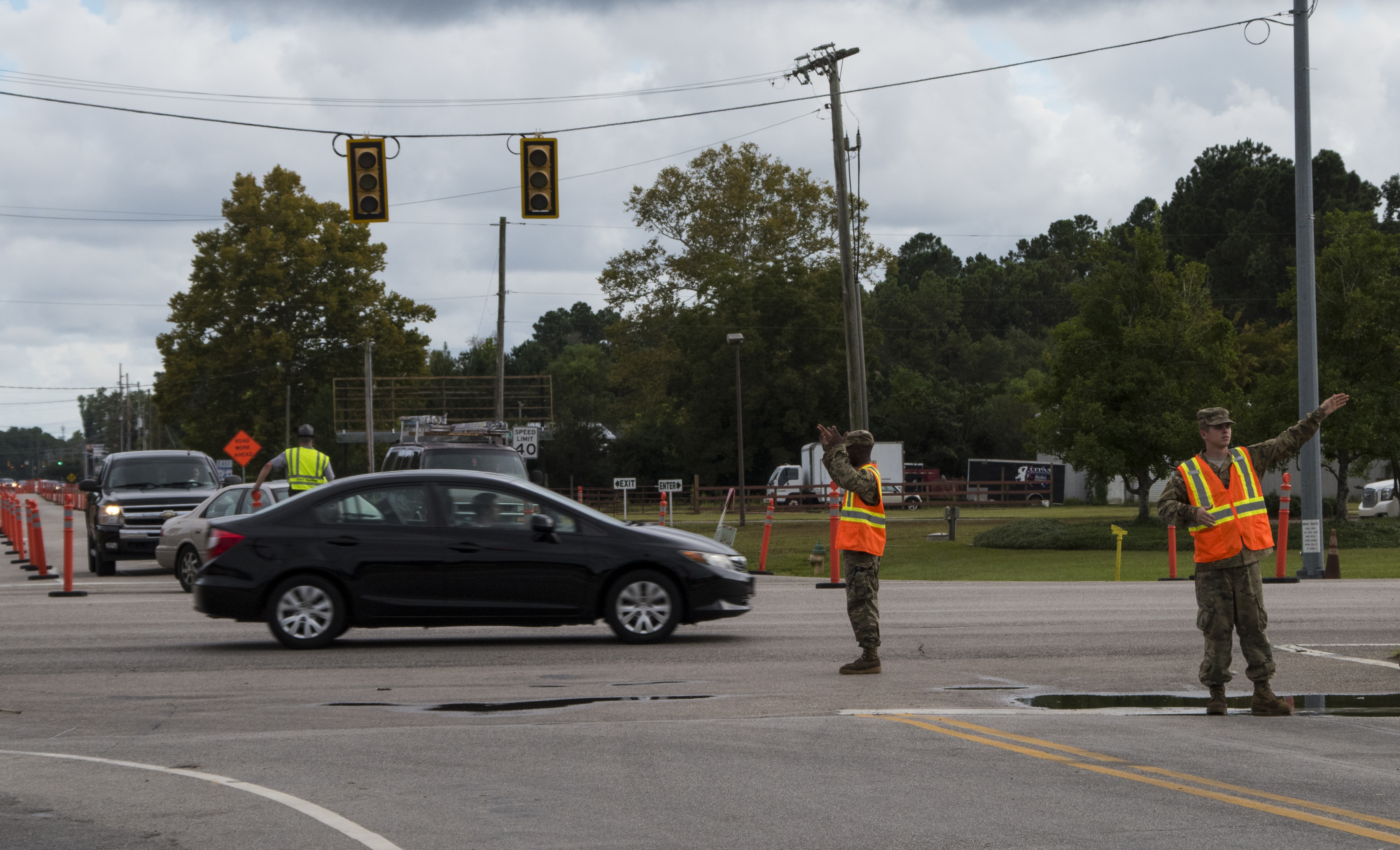 South Carolina National Guard Soldiers from B Battery, 1st of the 178th Field Artillery work with South Carolina Highway Patrol officers at a traffic control point in Conway, S.C. during the lane reversal of Highway 501 in support of the Myrtle Beach area evacuation to safeguard the citizens of the state in advance of Hurricane Florence, Sept. 11, 2018. Approximately 2,000 Soldiers and Airmen have been mobilized to prepare, respond and participate in recovery efforts for Hurricane Florence, a Category 4 storm, with a projected path to make landfall along the Carolinas and east coast. (U.S. Army National Guard Photo by Staff Sgt. Erica Knight, 108th Public Affairs Detachment)